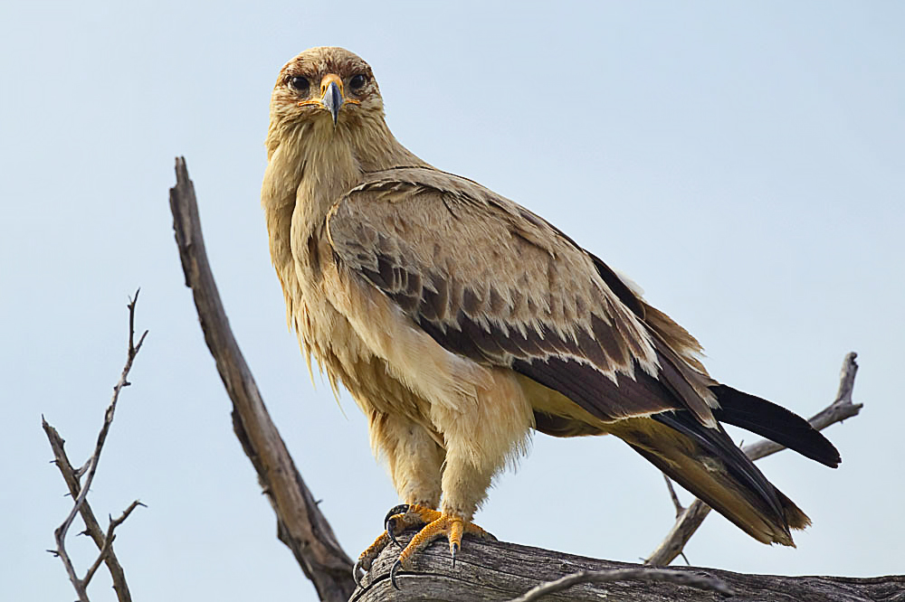 Tawny Eagle